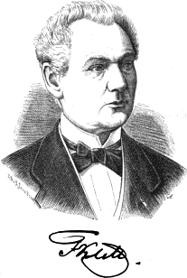 Portrait of de;Theodor Klett, woodcut by Emil Schröter, from Deutsche Gärtner-Zeitung 6 (1882), S. 353